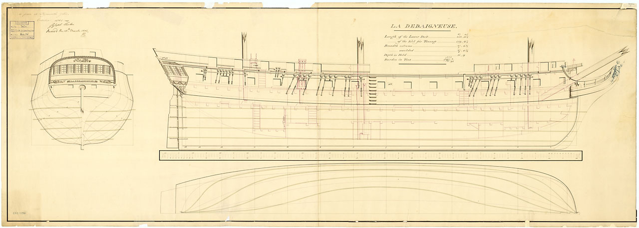 DEDAIGNEUSE FL.1801 [FRENCH] lines & profile NMM, Progress Book, volume 5, folio 743, states that 'Dedaigneuse' (1801) arrived at Plymouth Dockyard on 20 February 1801, was docked on 29 July 1801 and her copper was replaced. She was undocked on 24 August, and sailed on 9 November 1801 having been fitted.